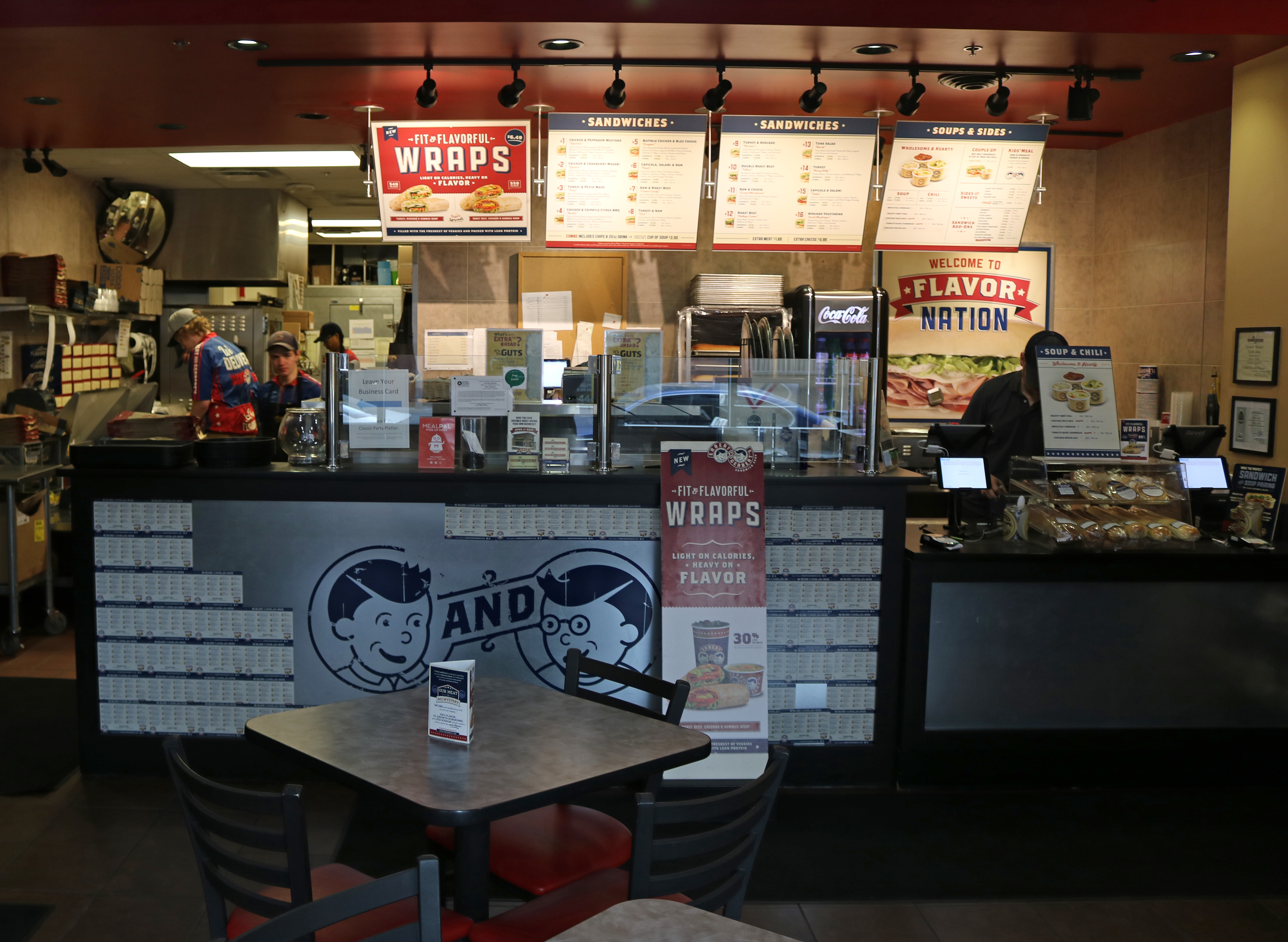 The interior of the Erbert & Gerbert's Sandwich Shop, located at 1675 Larimer Street in Denver, Colorado.